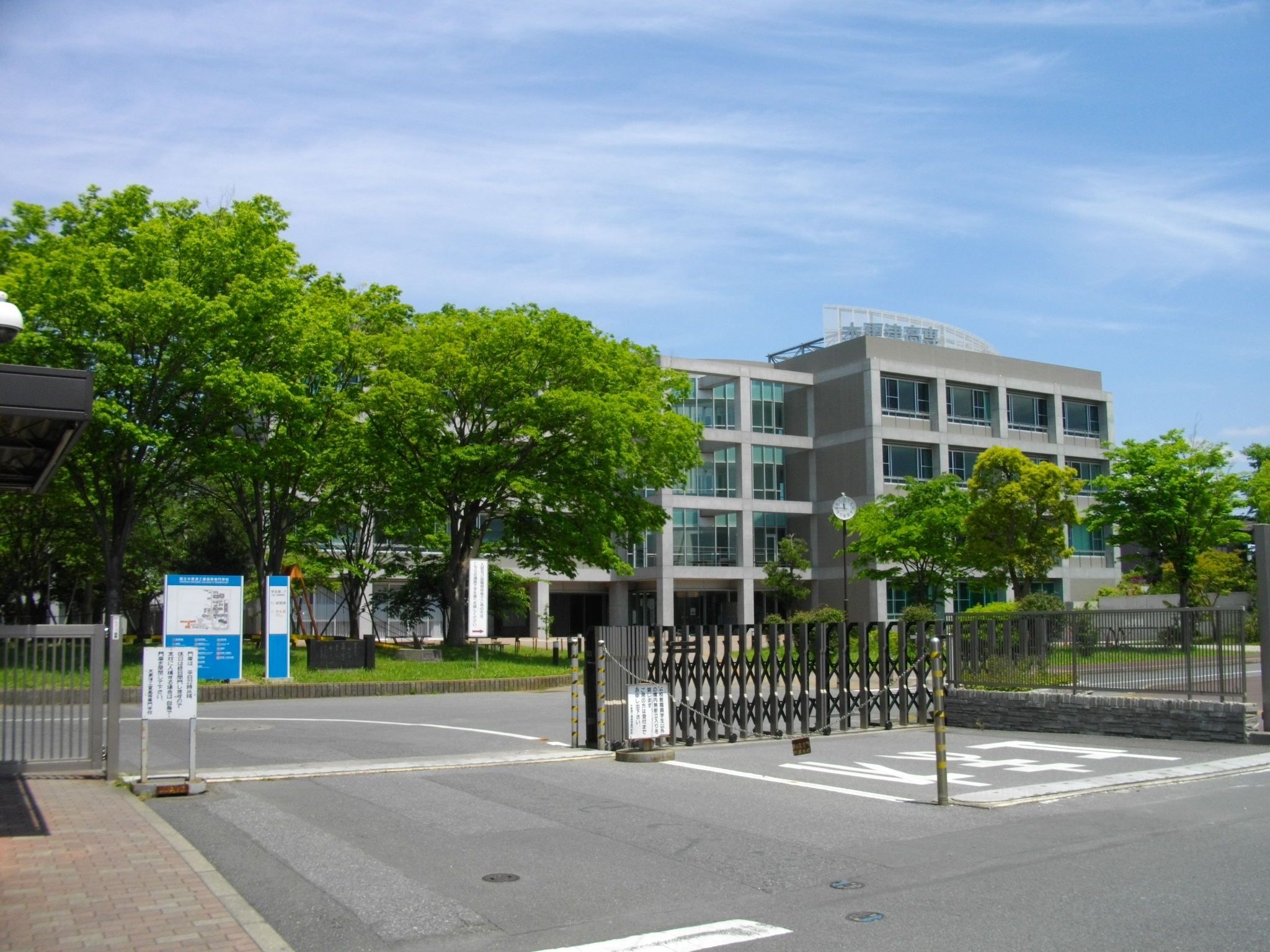 Kisarazu National College of Technology